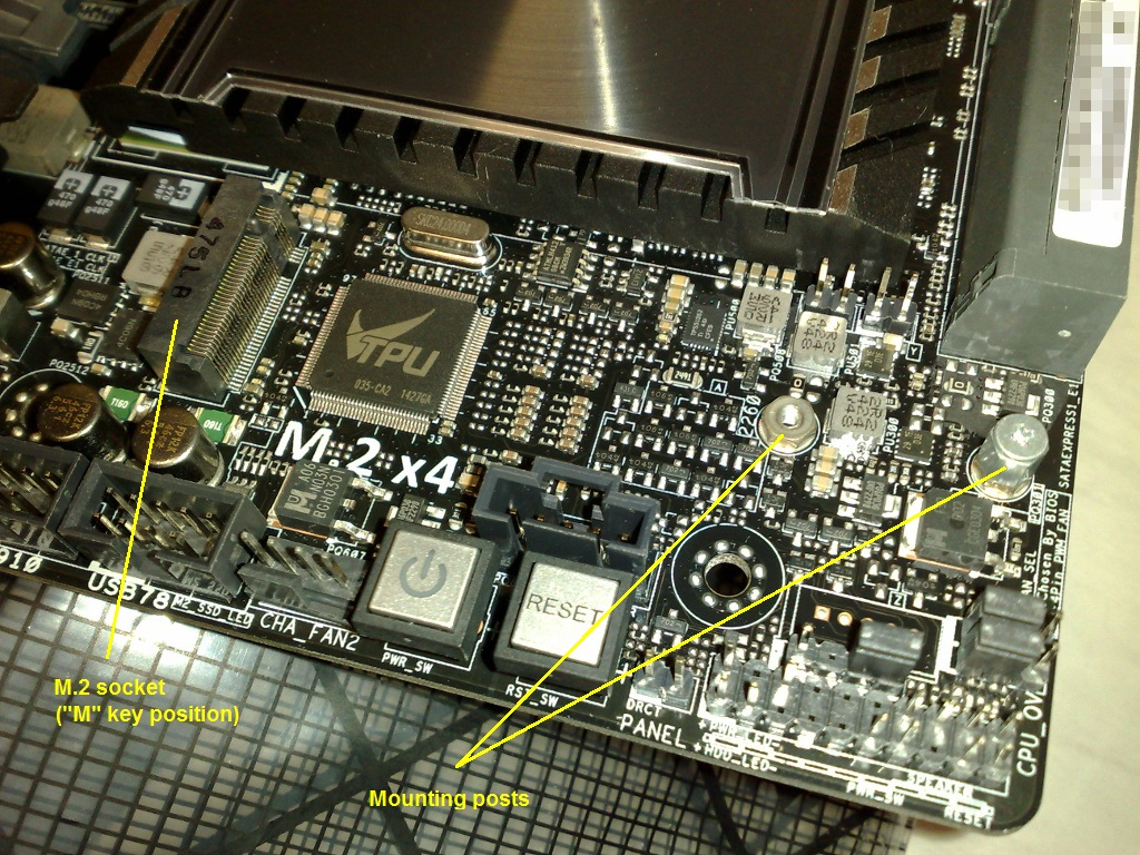 M.2 connector on an Asus X99-E WS motherboard with the key in "M" position, supporting 2260 and 2280 sizes of M.2 cards